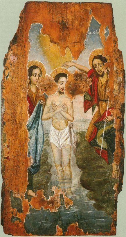 Baptism_Icon_by_Toma_Vishanov_from_Peter_and_Paul_Church_in_Dobrinishte.